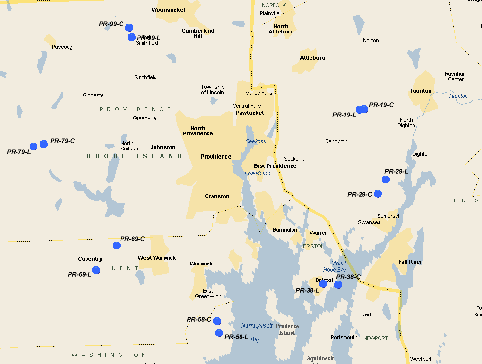 Providence Defense Area Nike Missile Sites